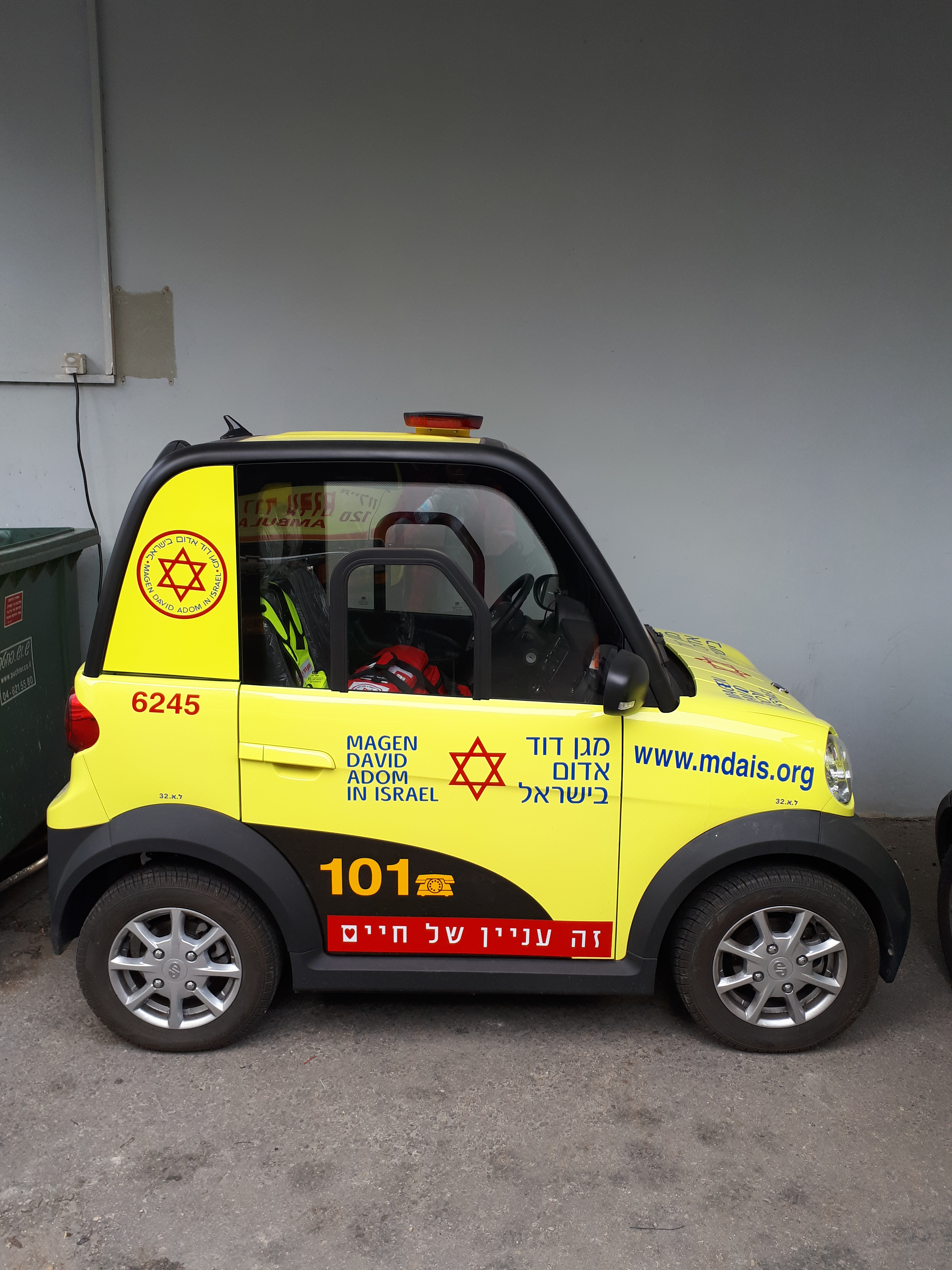 Bimbulance - small electric vehicle operated by Magen David Adom (Red Star David)